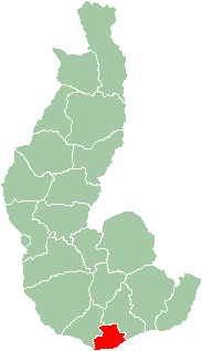 Location map of Tsiombe region in Toliara province.